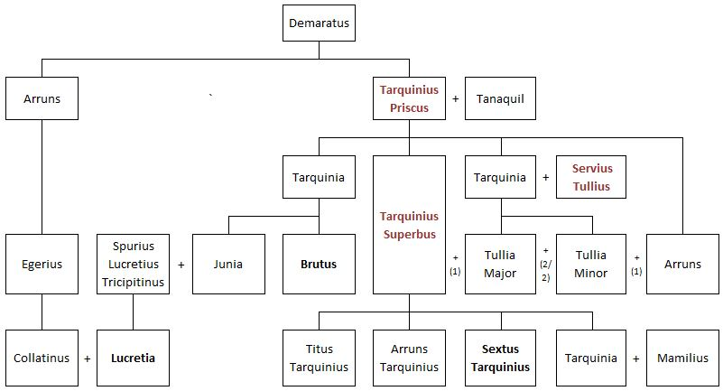 Family tree of Tarquinia (gens)